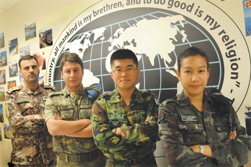 (FROM LEFT TO RIGHT) Maj. Jafar Alnizami of Jordan, 1st Lt. Onut Enver of Turkey, Maj. Changhee Kim of South Korea and 2nd Lt. Kamentip Juctong of Thailand represent four of the students from 52 countries who attend the Army Logistics University.